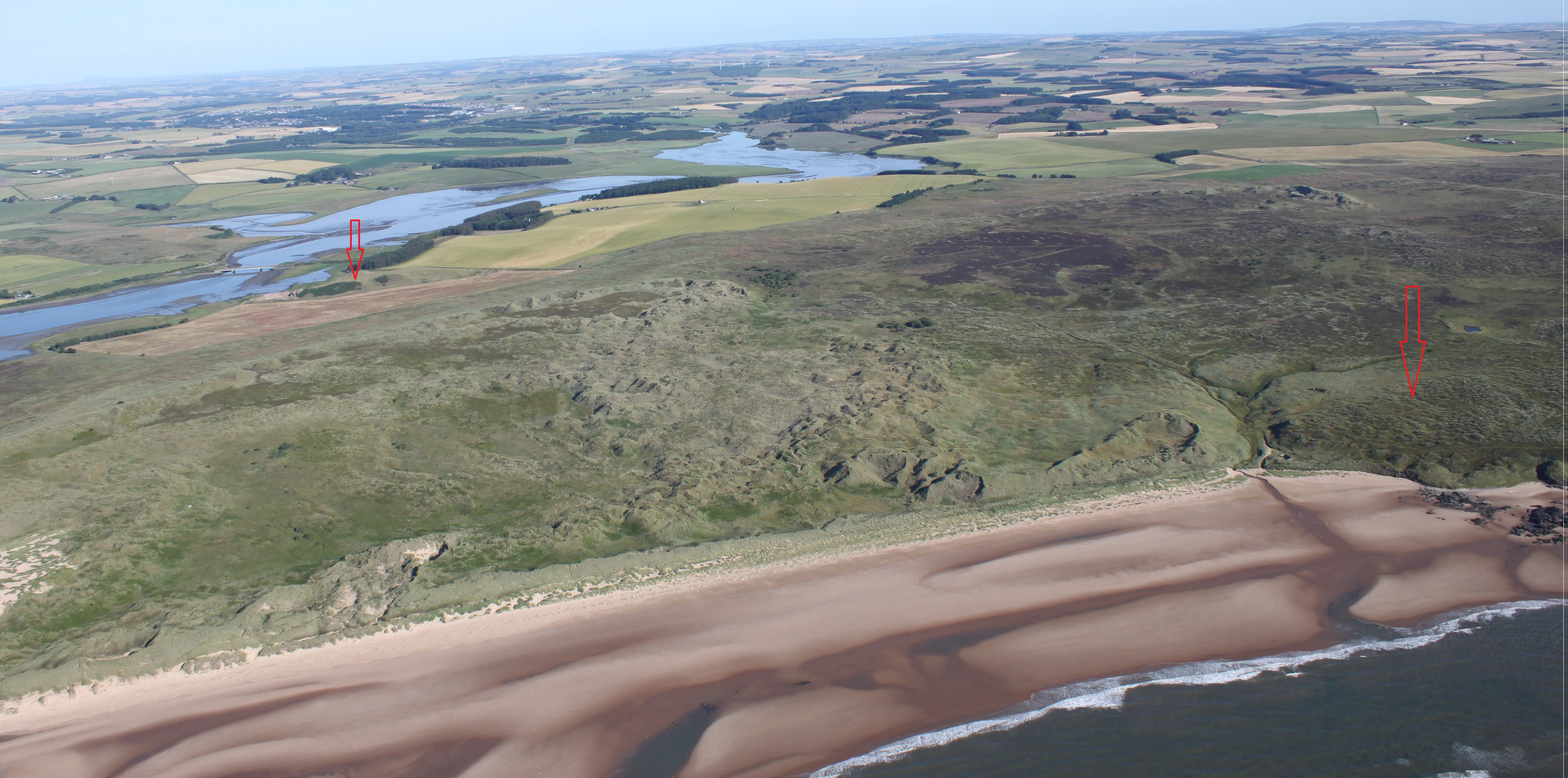 minefield start / end from Royal Engineers file in TNA - Kew. Photo by Cabro Aviation